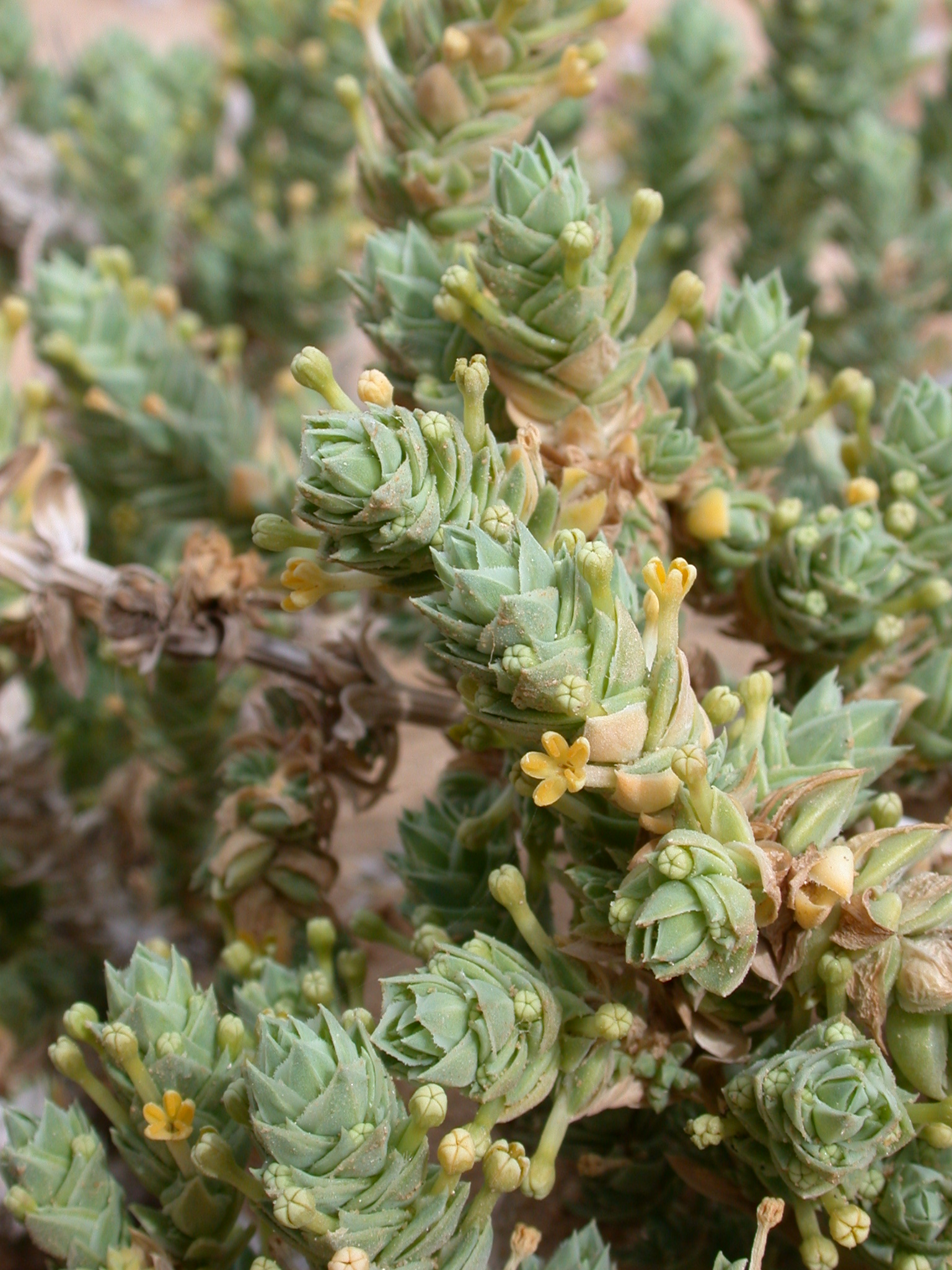 Crucianella maritima L., Netanya Beach, Israel, May 2, 2009.